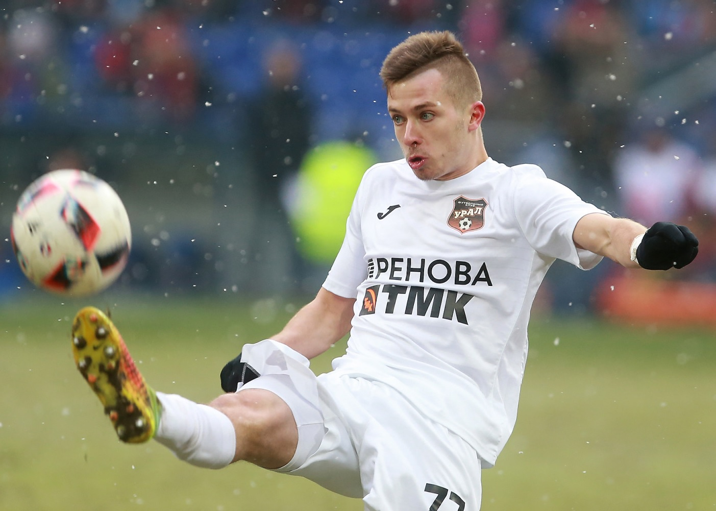 Dmitri Korobov with FC Ural Yekaterinburg in a game against PFC CSKA Moscow.